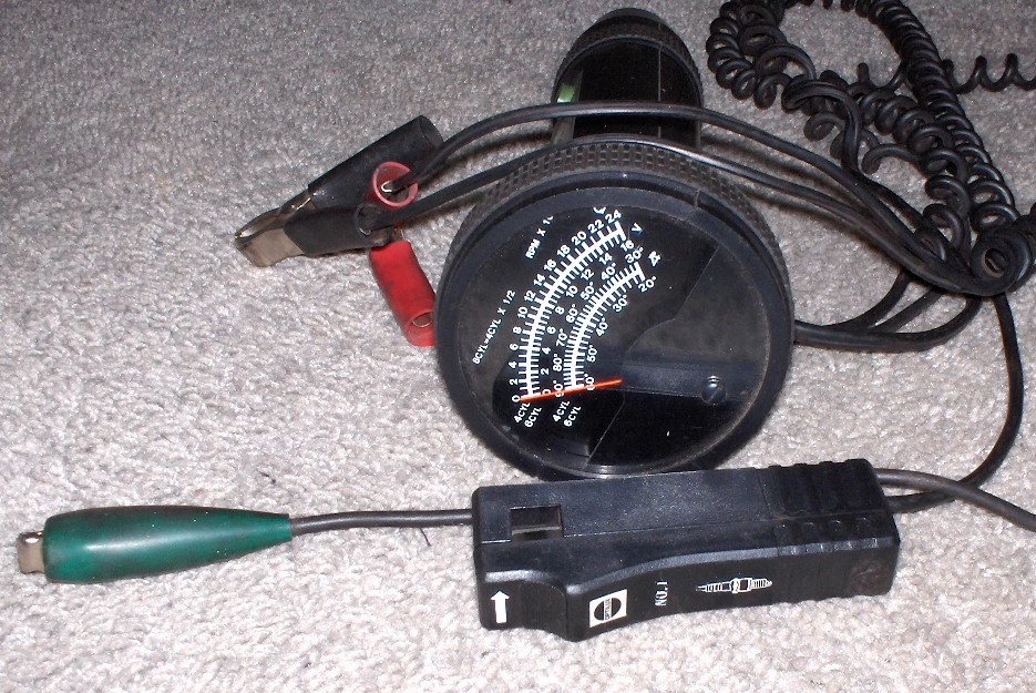 Timing light Photo, upload; MH 13:20, 19 March 2006 (UTC)